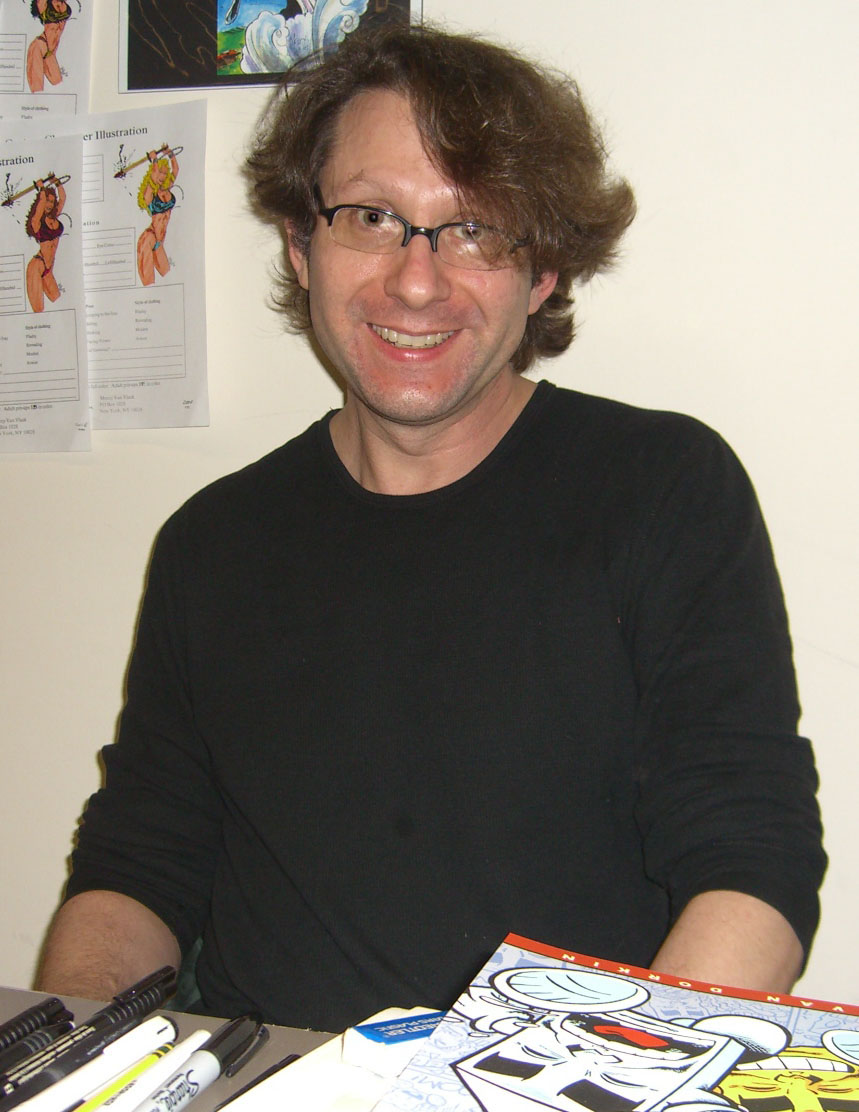 Comics creator Evan Dorkin at the Big Apple Convention on November 14, 2008 in Manhattan. This photo was created by Luigi Novi. It is not in the public domain, and use of this file outside of the licensing terms is a copyright violation.